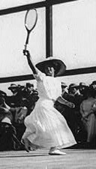 Hazel Hotchkiss